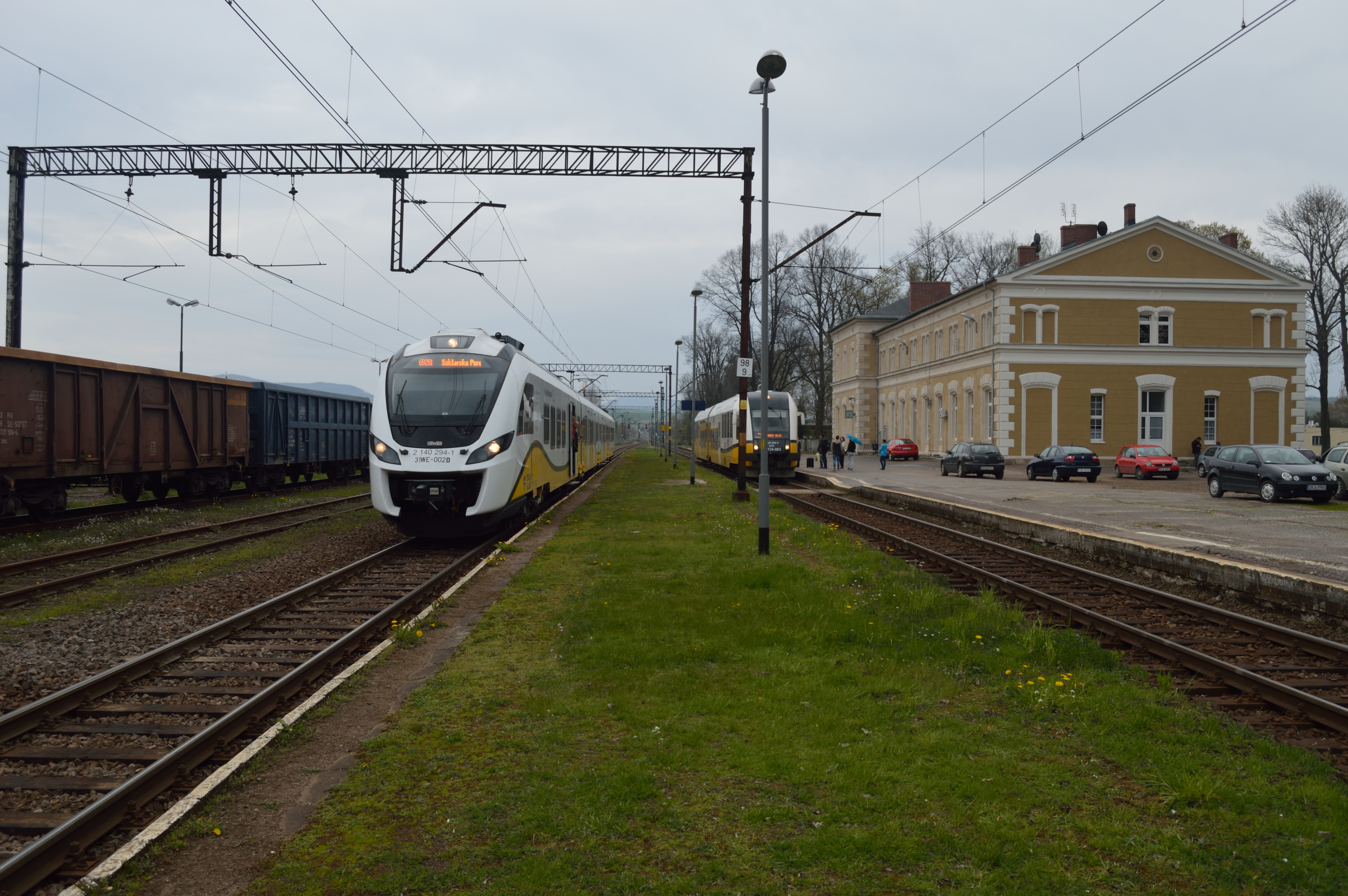 Connection at the junction station of Sędzisław on 3 May 2016 sees EMU 31WE-003 on train KD69281, 14:39 Wroclaw Główny to Szklarska Poręba Góra and on the right, 2-car DMU SA134-003 working KD25405, 16:23 Jelenia Góra to Trutnov hl.n.